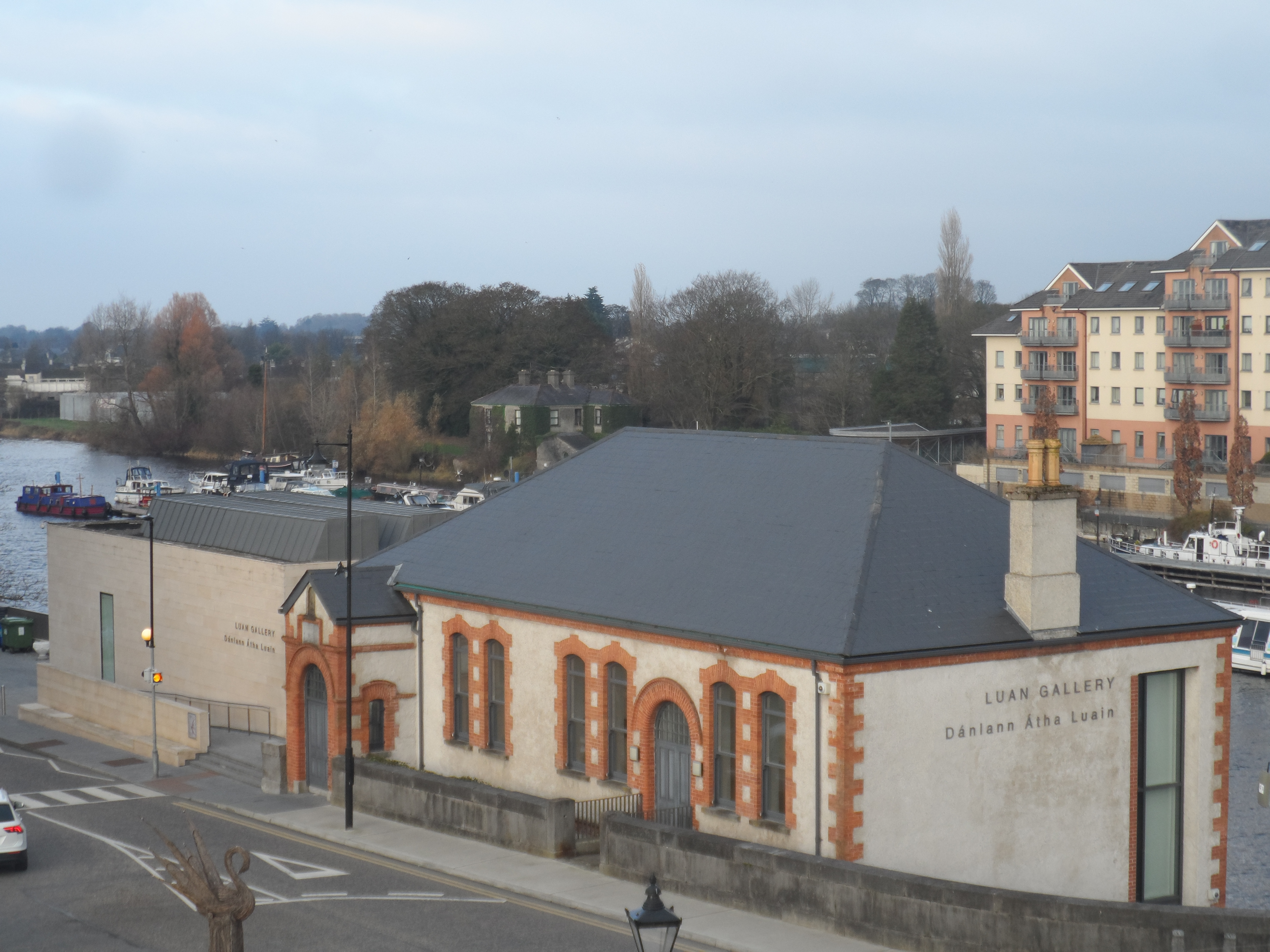 Luan Gallery, Athlone